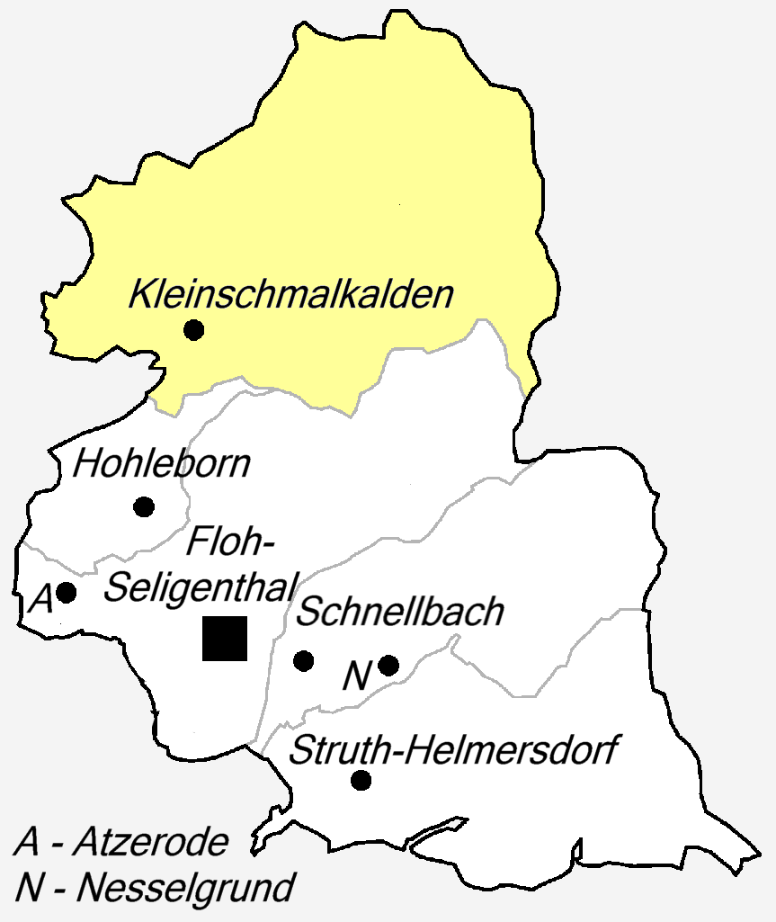 District-Maps of Kleinschmalkalden in Floh-Seligenthal.